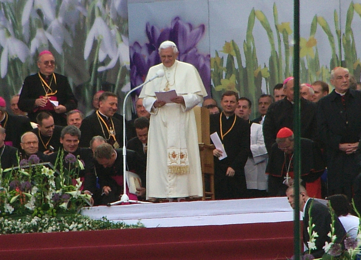 Meeting of Benedictus XVI with youth on Błonia in Cracow